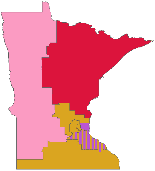 Libertarian Party presidential caucuses in Minnesota results 2020